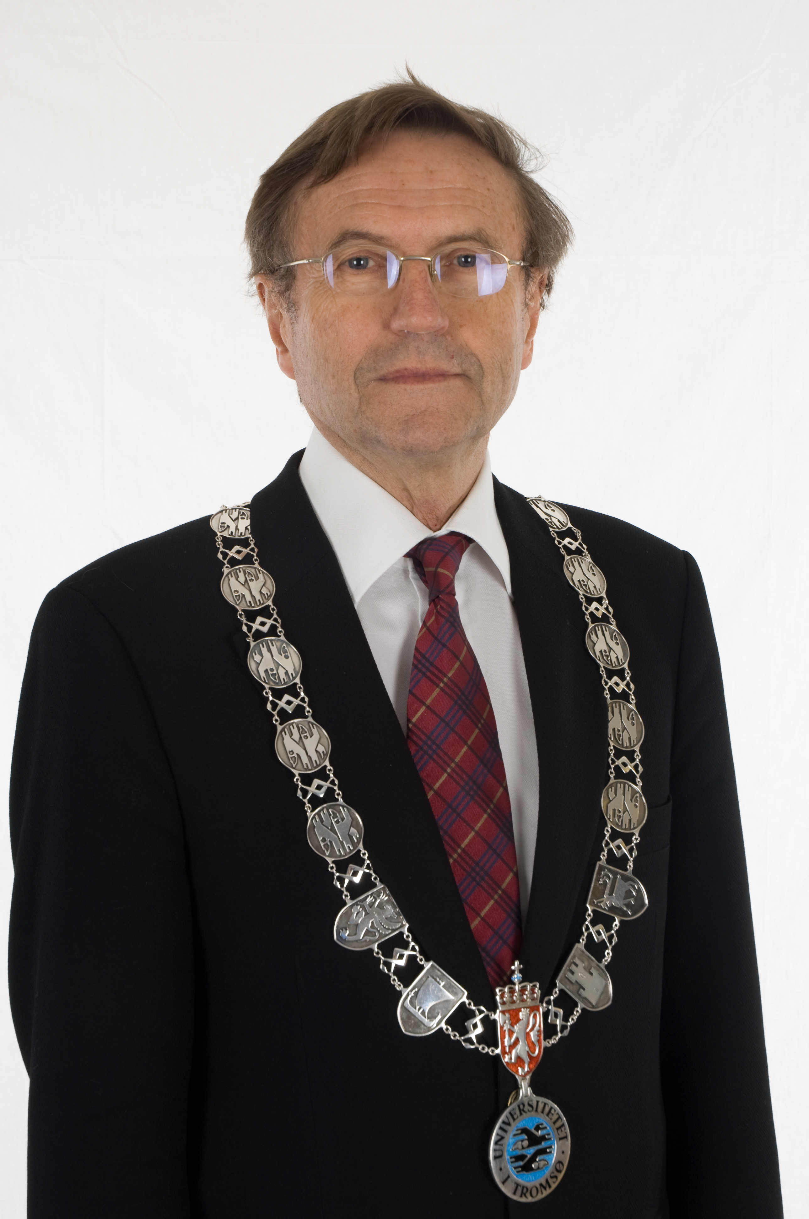 Jarle Aarbakke, Rector at The University of Troms�. Photo: Torbein Kvil Gamst